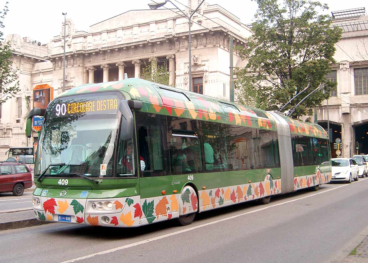 Cristalis trolleybus in Milan, Italy. In the background can be seen part of Milan's central railway station. The leaf motifs represent a type of tree which grows along many of the tree-lined avenues served by trolleybus routes 90/91 which these vehicles operate on.